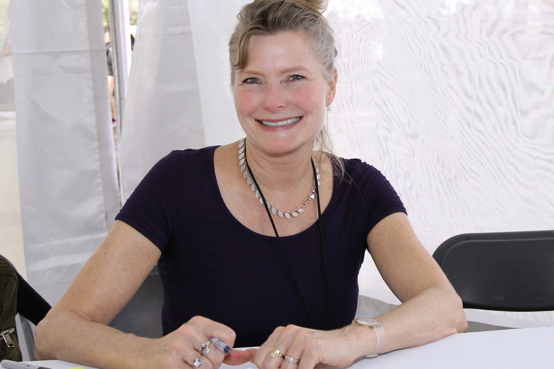 Author Jennifer Egan at the 2017 Texas Book Festival in Austin, Texas, United States.